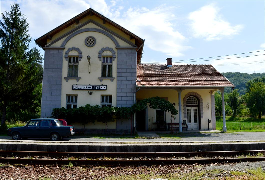 Raska Municipality - Brvenik